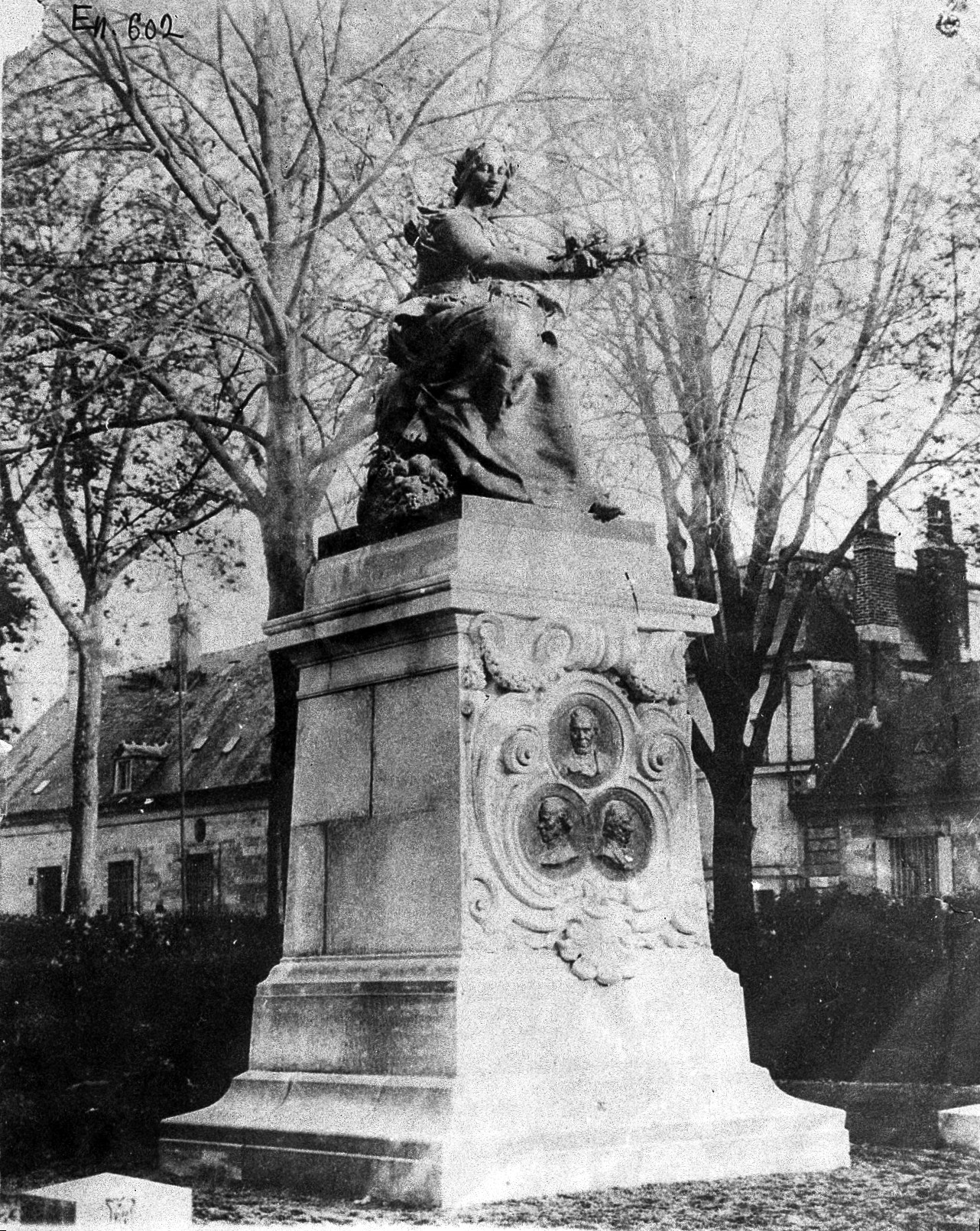 Medallion on monument to "Les Trois Medecins Touraugeaux", formerly atTours. It was destroyed by the German occupying forces Wellcome Images Keywords: Pierre Bretonneau; Alfred Armand Louis Marie Velpeau; Pierre Bretonneau